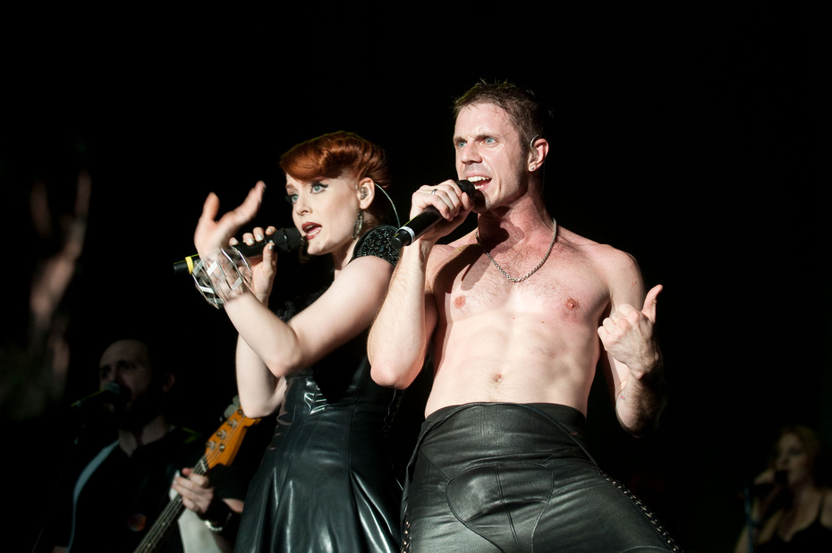 Jake Shears and Ana Matronic of the Scissor Sisters performing in 210 at the Fuji Rock Festival, Japan.